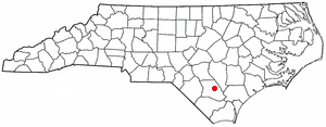 Category:North Carolina Dot Maps